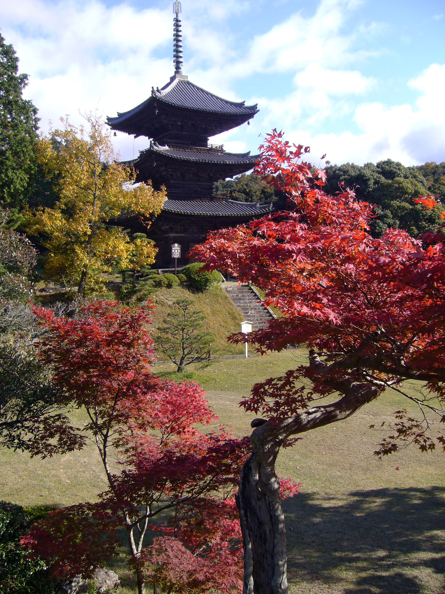 Nyoi-ji's Pagoda is Japan's Important Cultural Property in Kobe, Hyogo prefecture, Japan